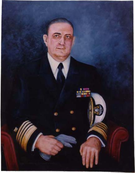 Provided by Julian Gammon III Admiral Moreell's grandson. This photo was in my possession and I scanned it it to my computer.